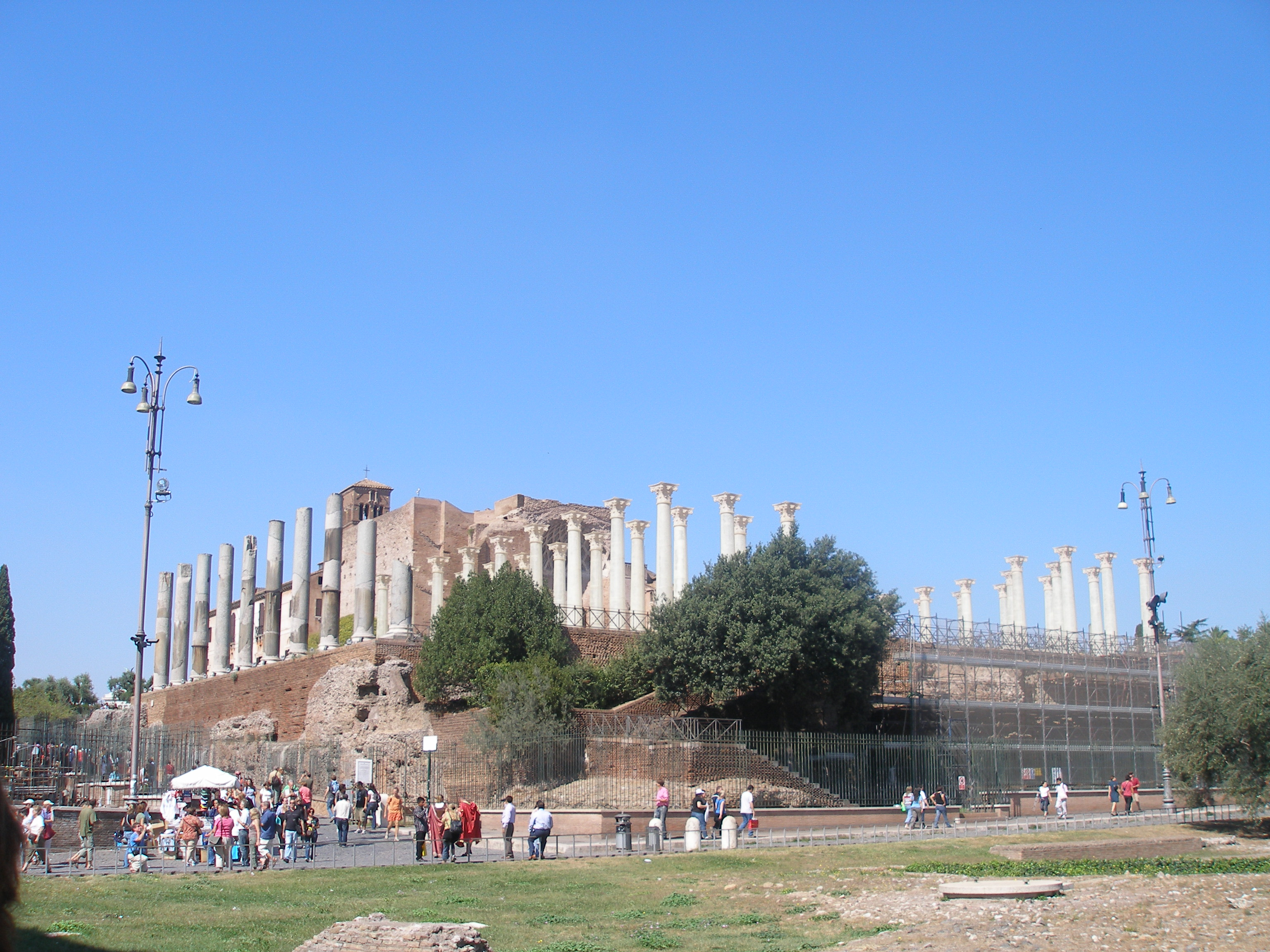 Temple of Venus and Roma